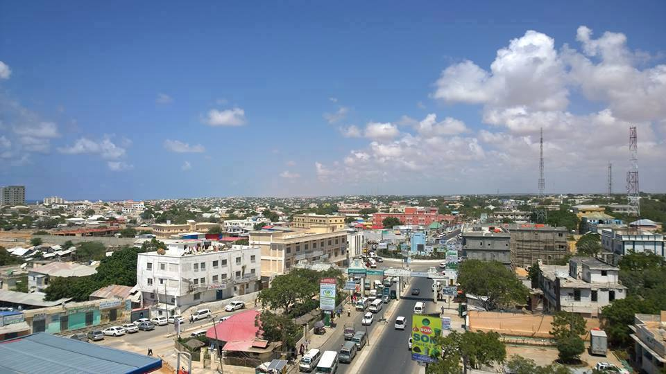 Somali capital